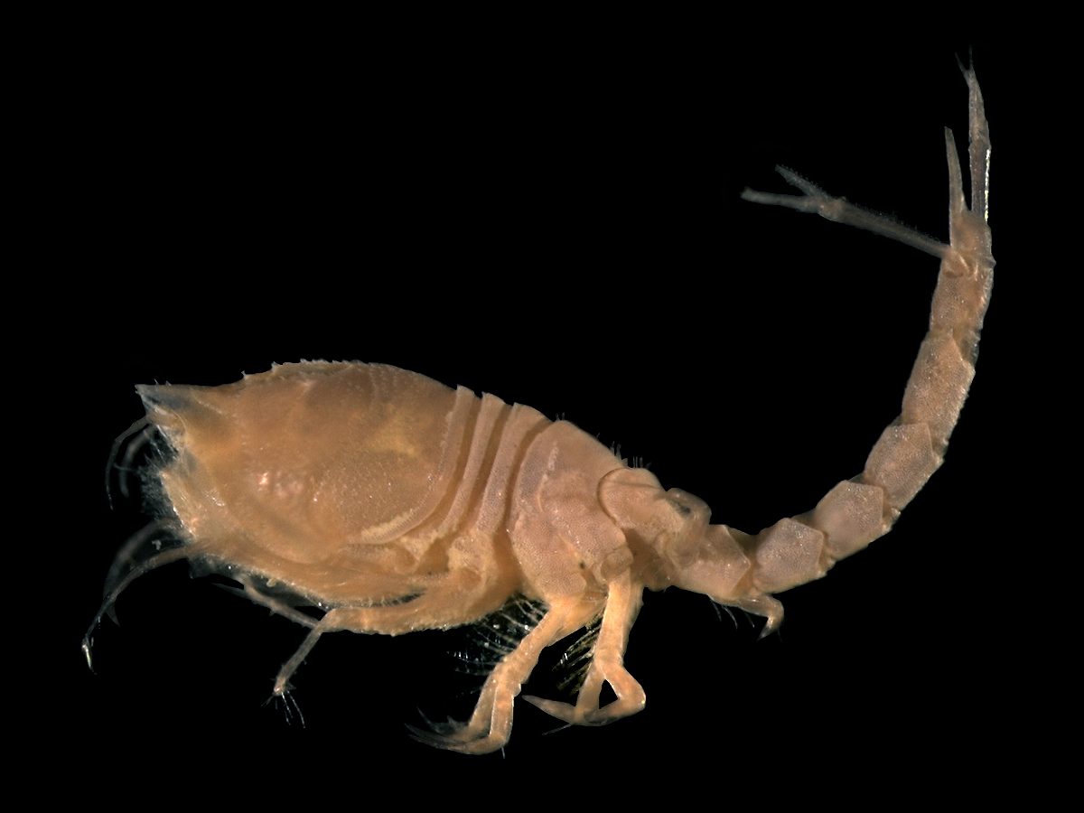 Cumacean photographed with an Axiocam (Zeiss) camera mounted on a Zeiss Stemi C-2000 binocular microscope. Length: ~9 mm. This cumacean was sampled on the Belgian Continental Shelf in 1997.